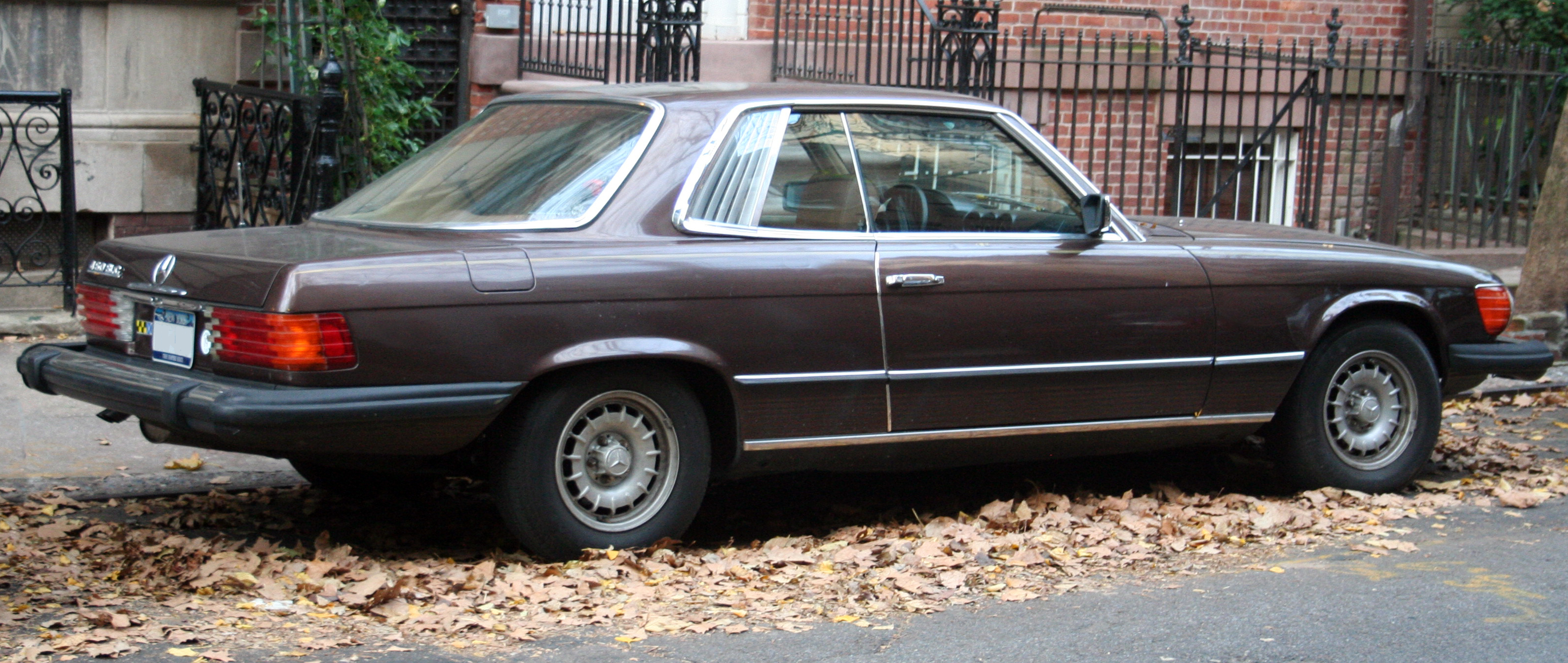 1980 Mercedes-Benz 450 SLC, US-spec version with horrific safety bumpers